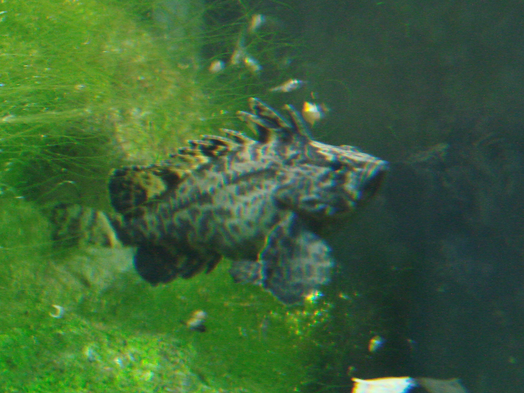 Picture taken in the zoo of Wrocław (Poland): Vespicula depressifrons (Richardson, 1848)